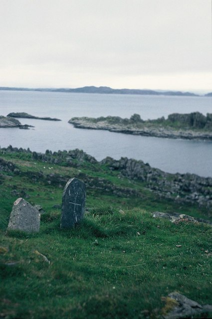 Aethne's grave, Eileach an Naoimh Aeithne was mother of Saint Columba who frequently stayed there as a retreat from Iona.